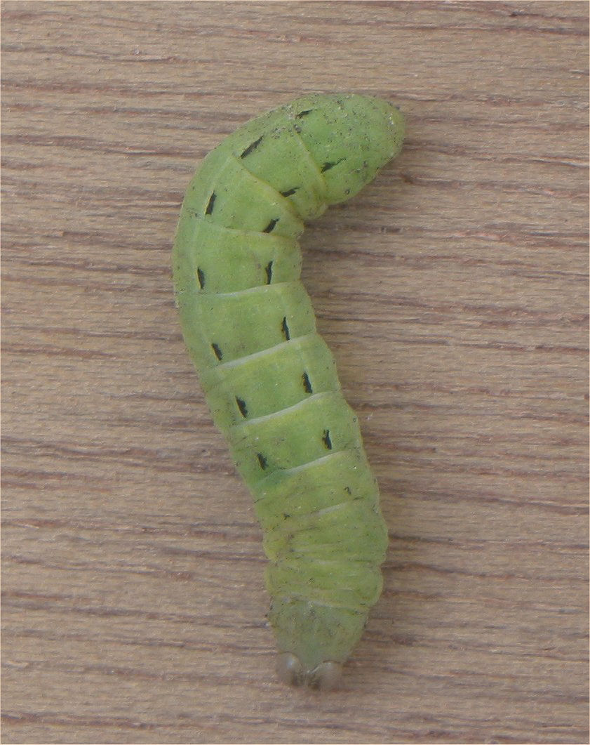 Noctua pronuba